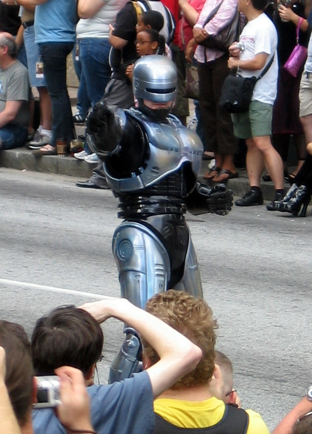 Cosplay of RoboCop in the parade at Dragon*Con 2007.